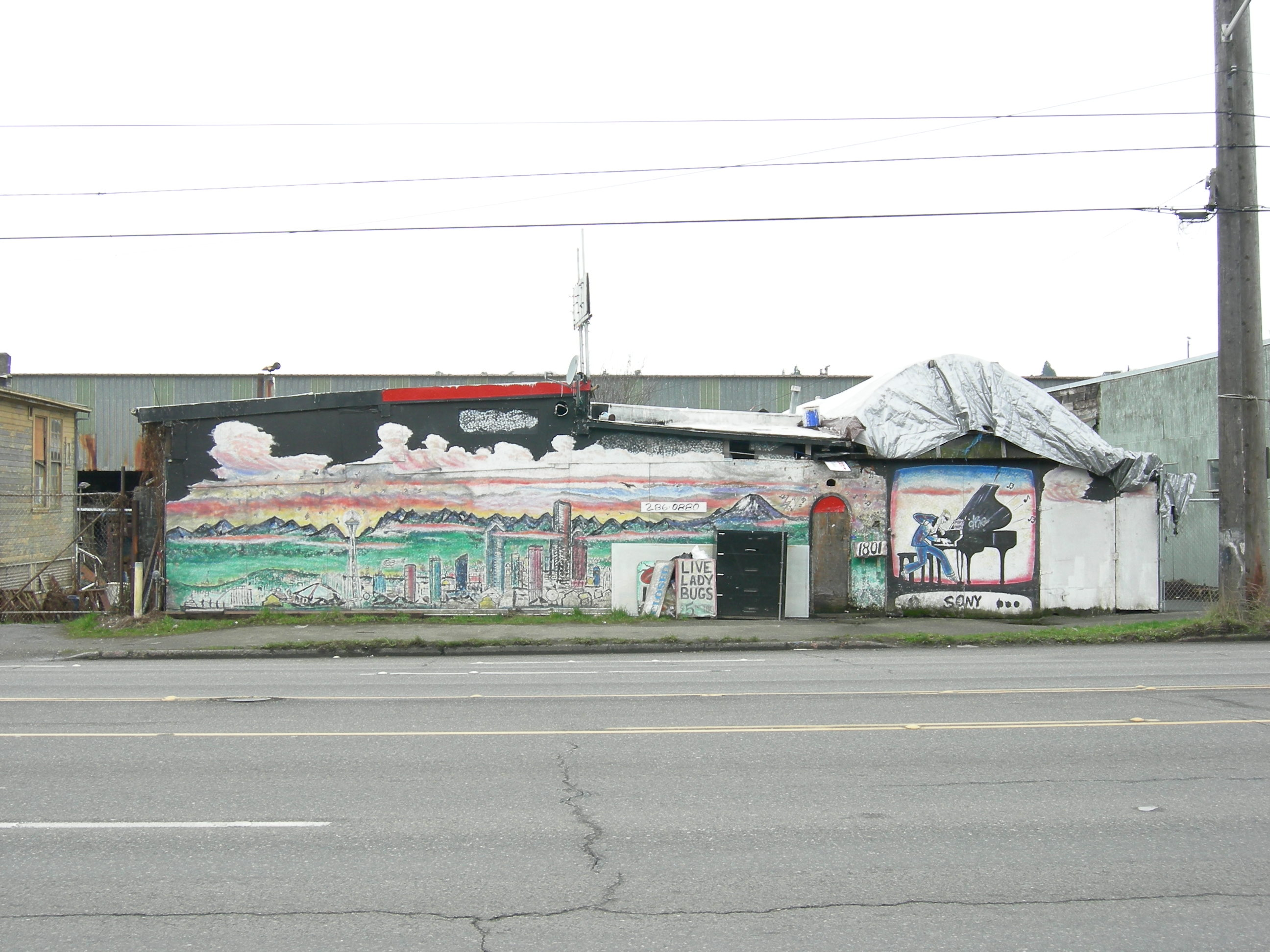 The studio/home of artist/musician Buddy Foley, something of a landmark on 15th Avenue N, in Interbay, on the road between downtown Seattle, Washington and Ballard. The building was demolished August 9, 2007, months after this picture was taken.